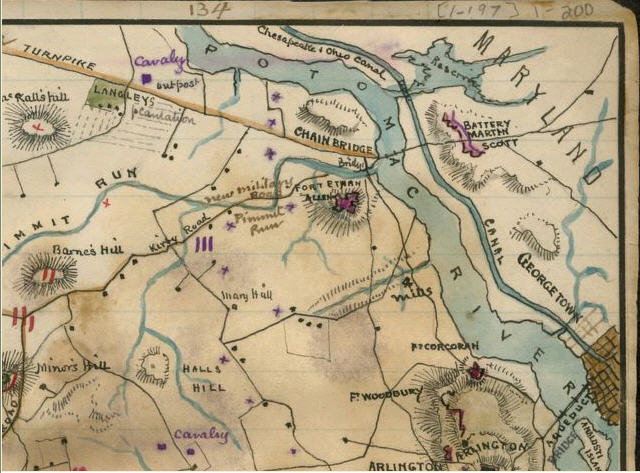 Civil War map of forts near Chain Bridge, Washington, D.C. Robert K. Sneden, Map showing positions of Union and Rebel forces Septr [sic] 1861.